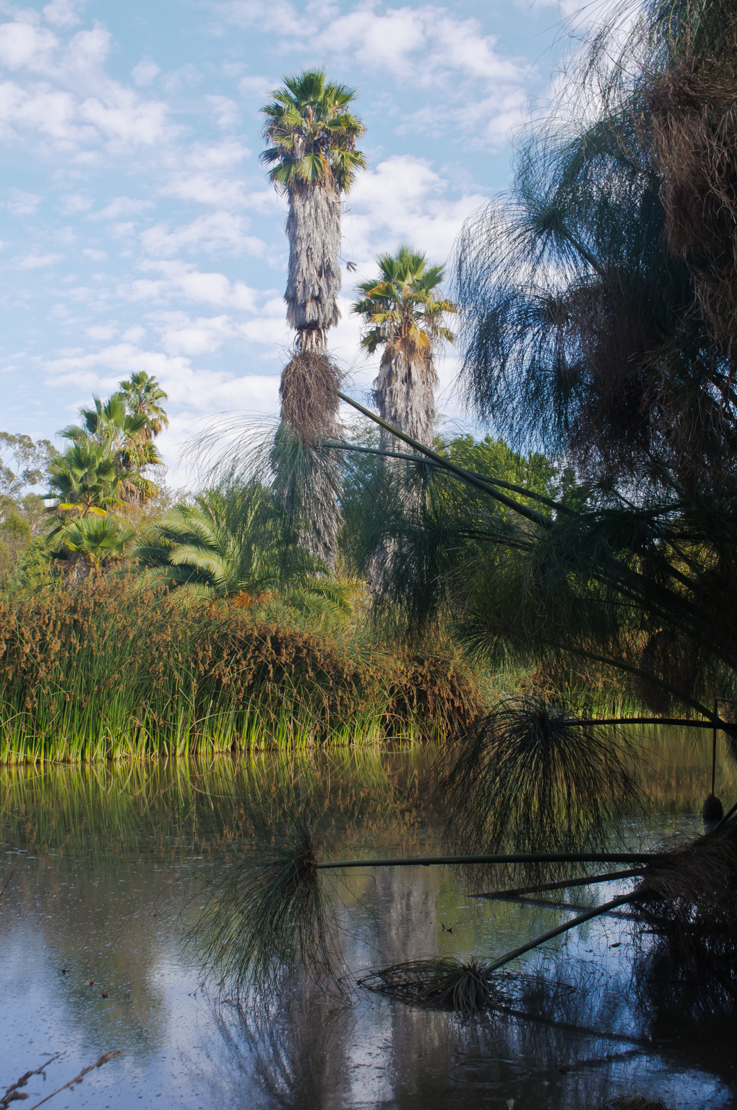 I am spending an afternoon at a lovely botanical garden located on posh Palos Verdes Peninsula, southwest of Los Angeles. This botanical garden is located on the site of a former mine turned landfill.